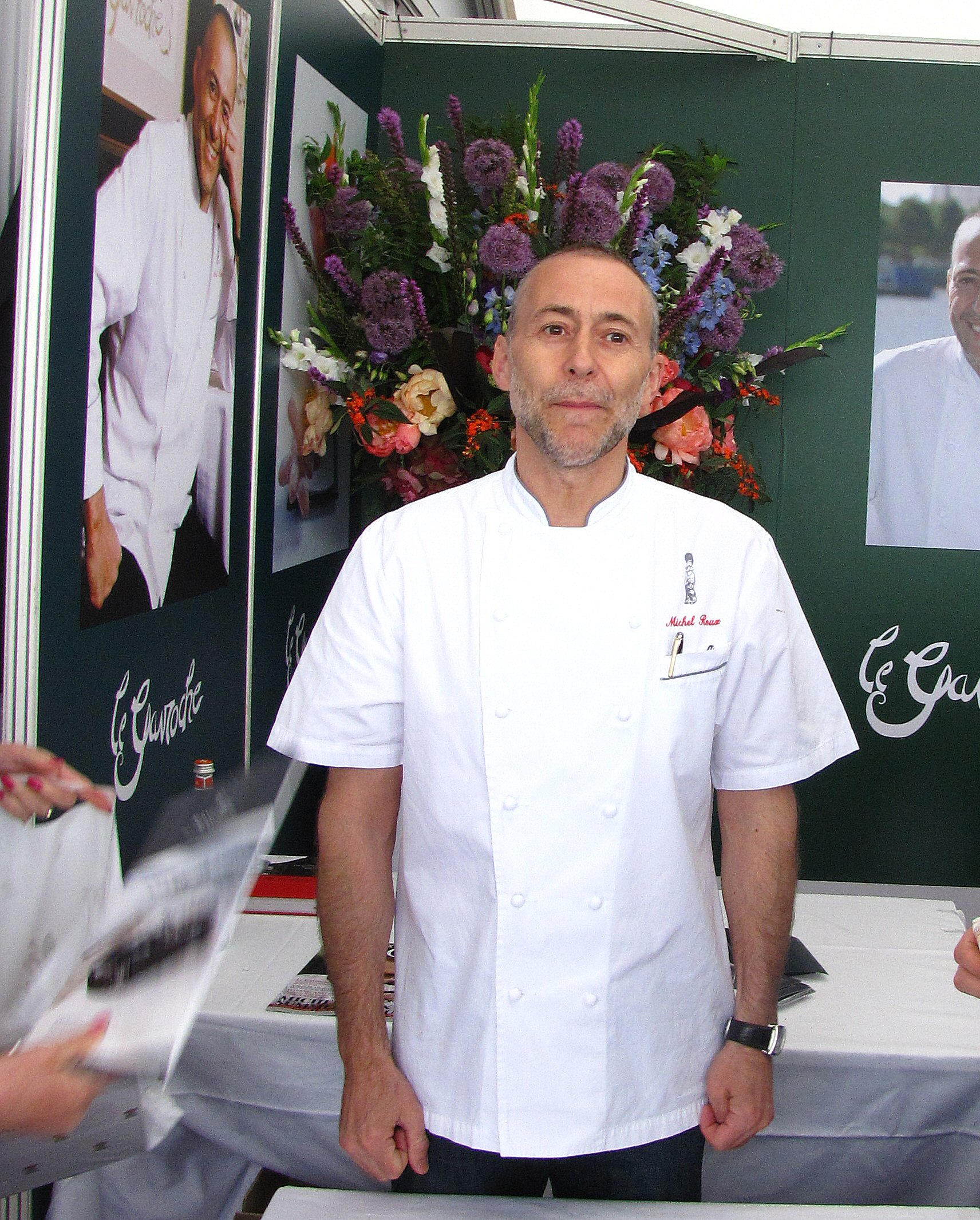 Michel Roux Jr at Taste Of London Festival,Regent's Park, June 2010